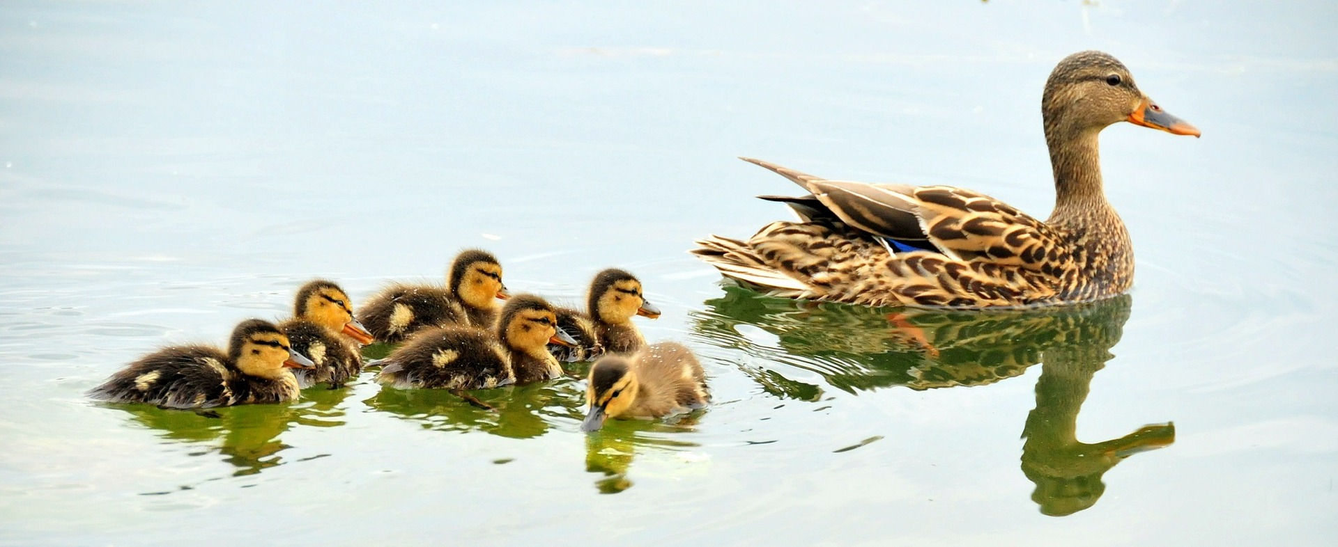 Duck with ducklings in the water